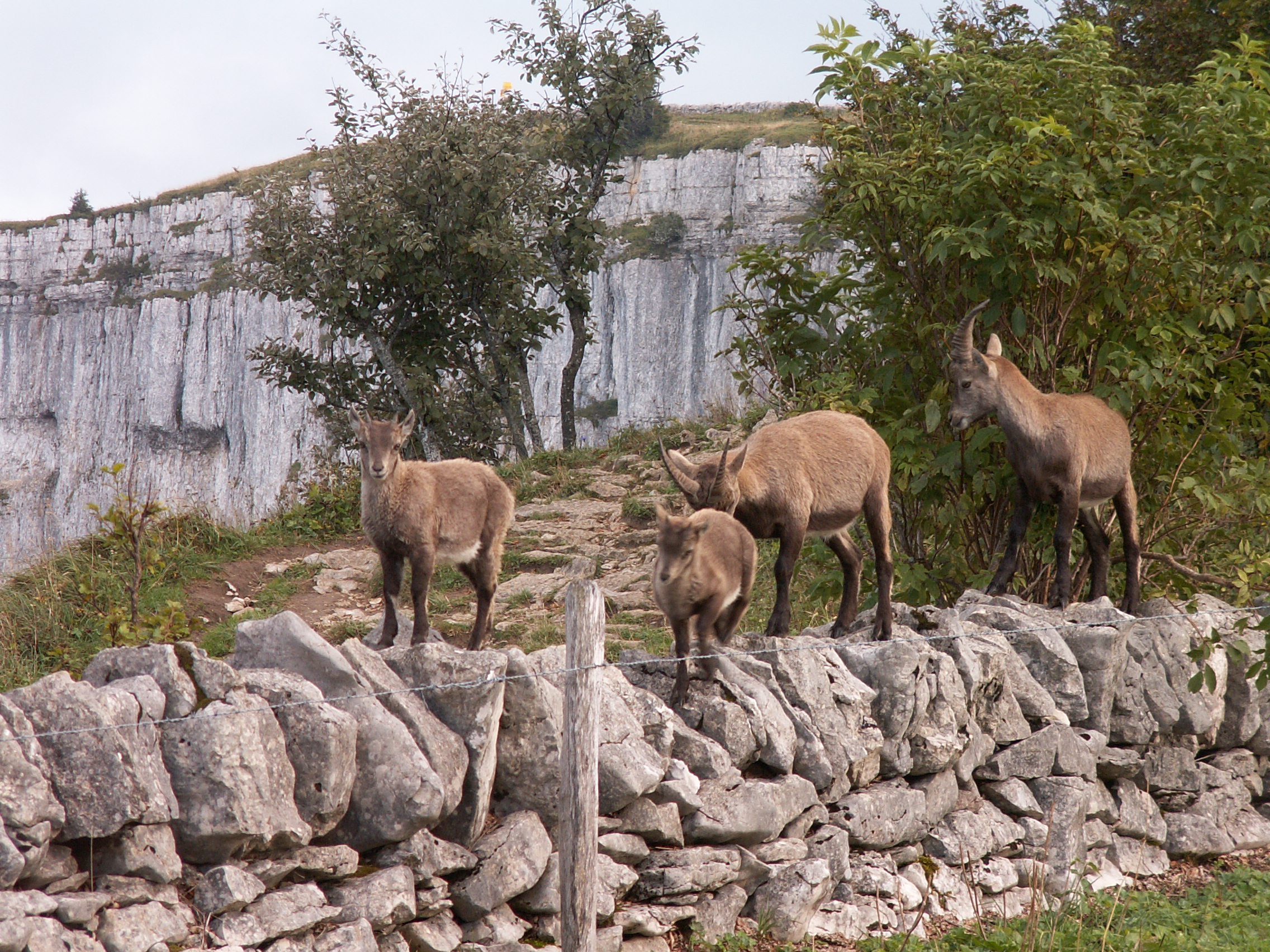 Alpine Ibex on Creux du Van / Swiss Jura